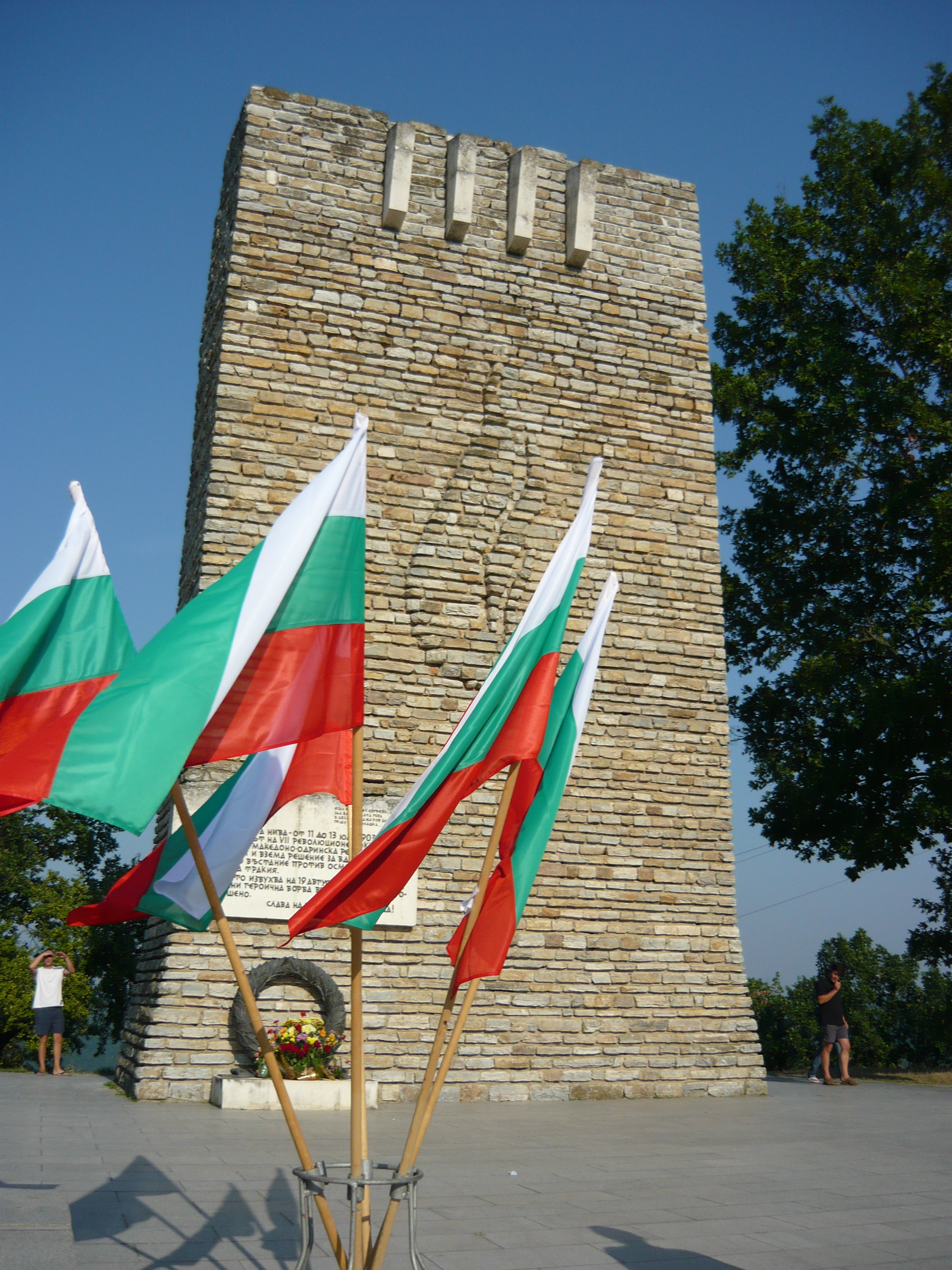 Memorial of Petrova Niva